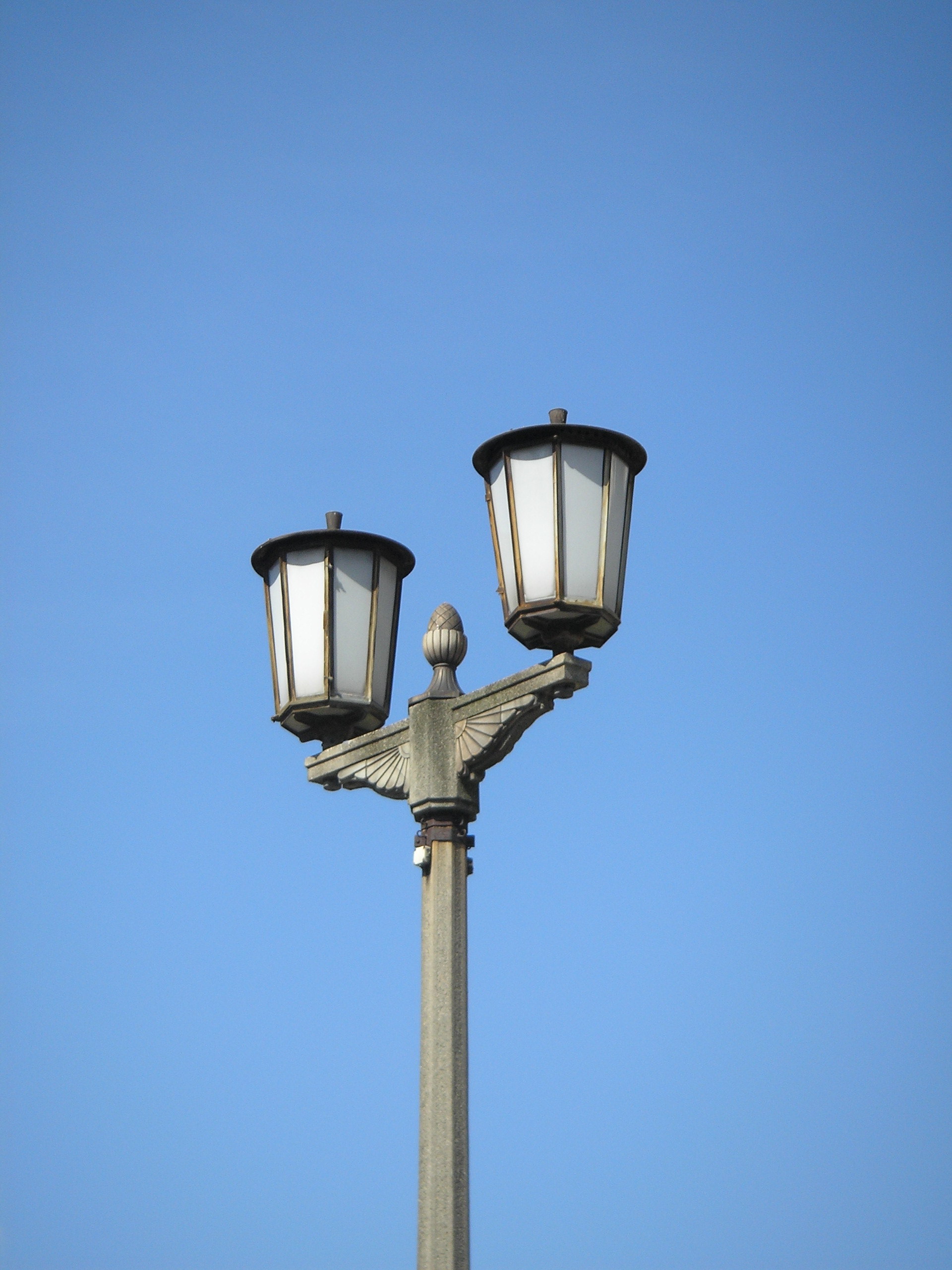 Stalinist style street lantern on Karl-Marx-Allee in Berlin. Constructed around 1952.